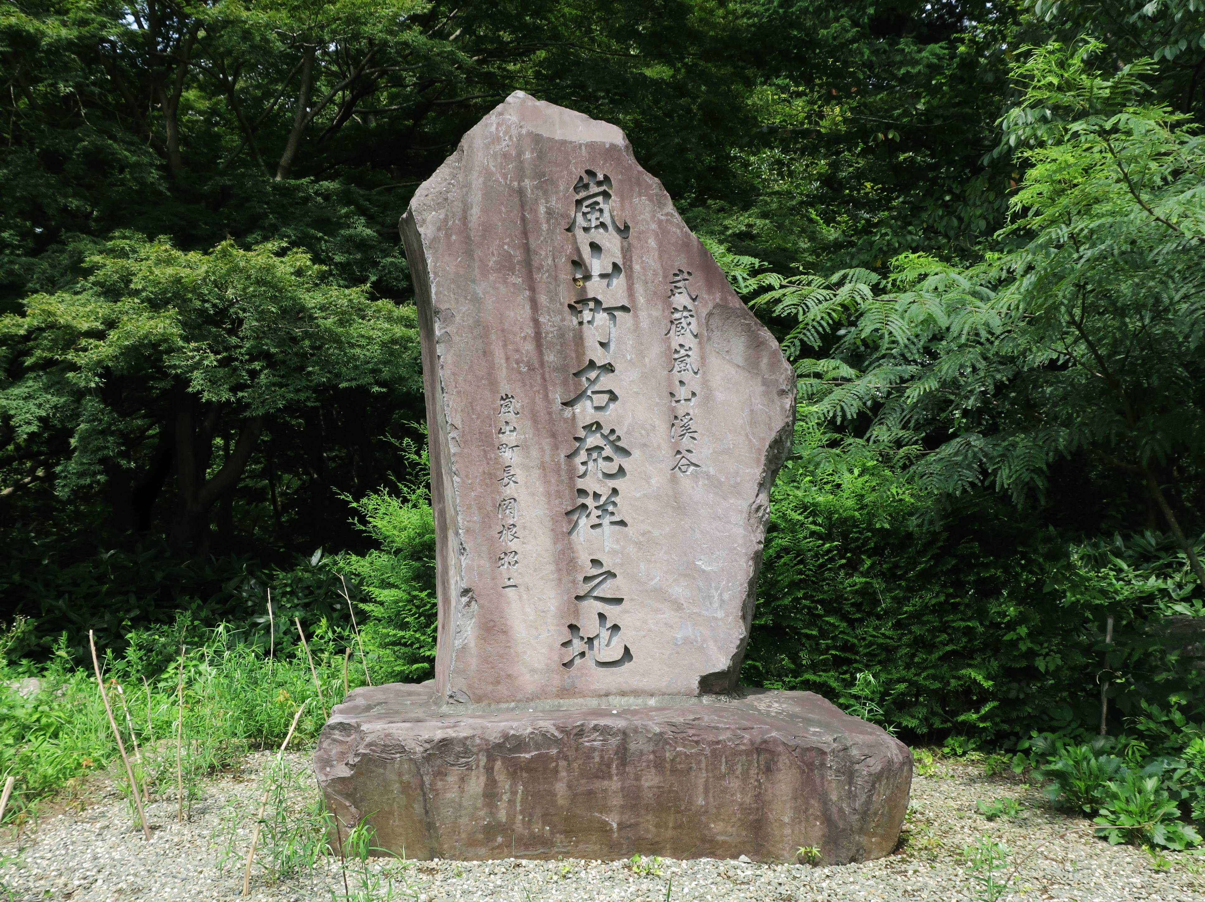 Ranzan Ravine (Ranzan, Saitama).